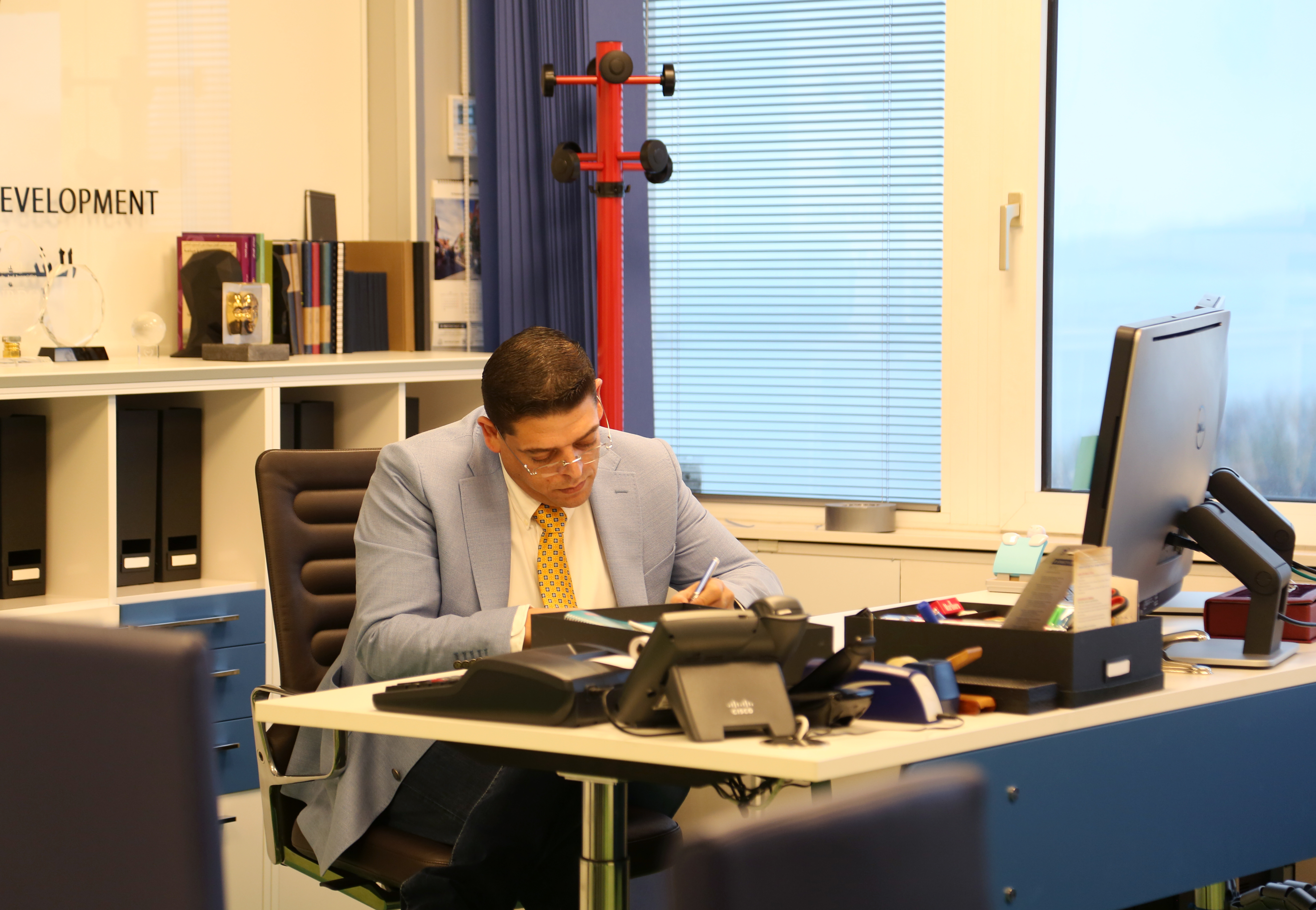 Dr Loai Deeb Photo on GNRD-HQ